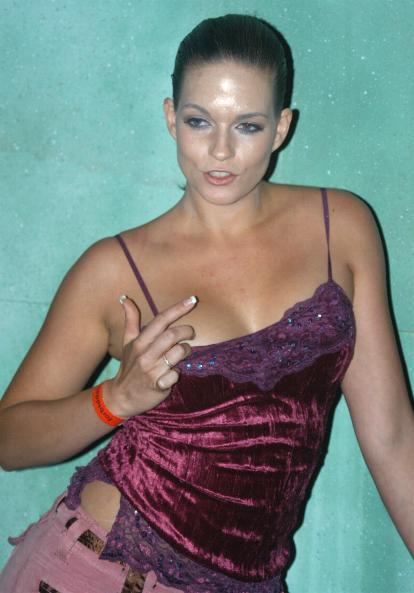 Pornographic actress Crissy Cums.